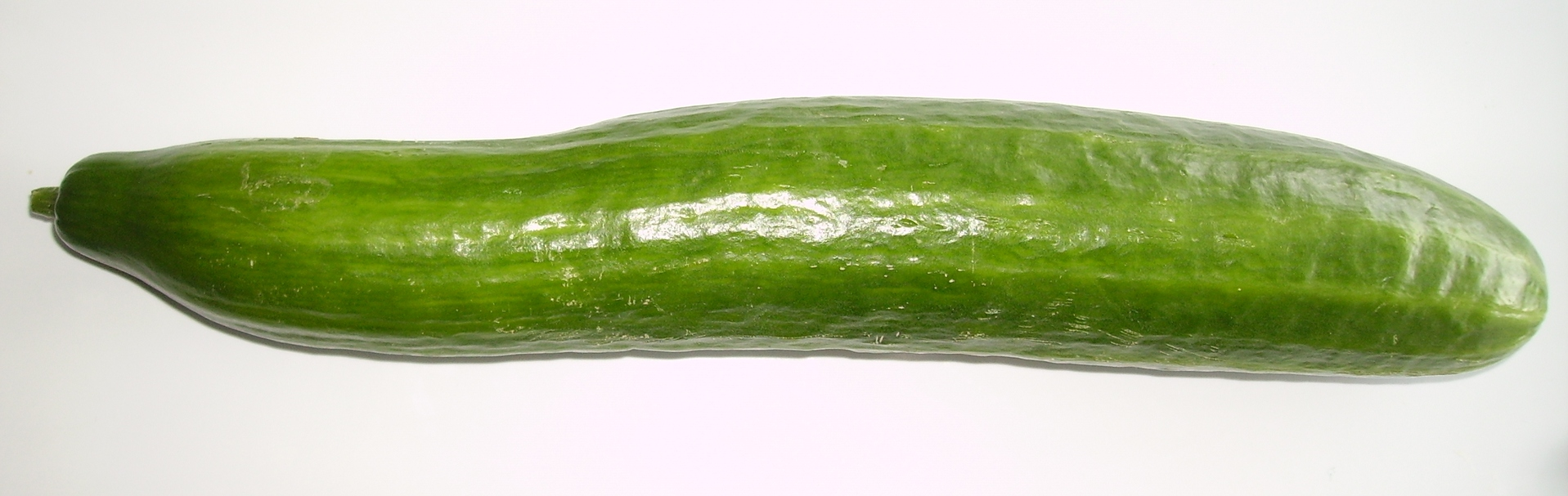 A cucumber